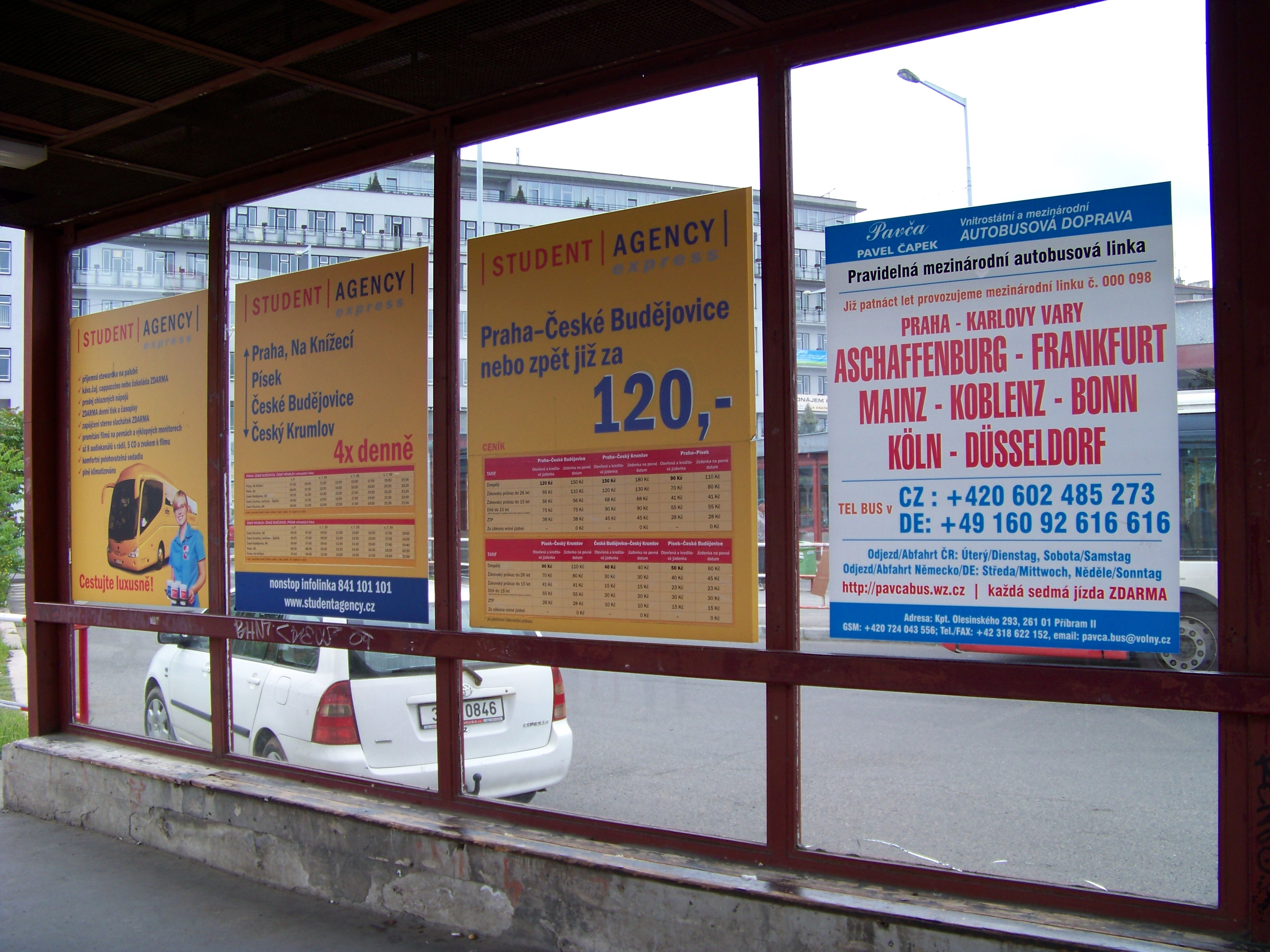 Smíchov, Prague, the Czech Republic. Na Knížecí bus station.